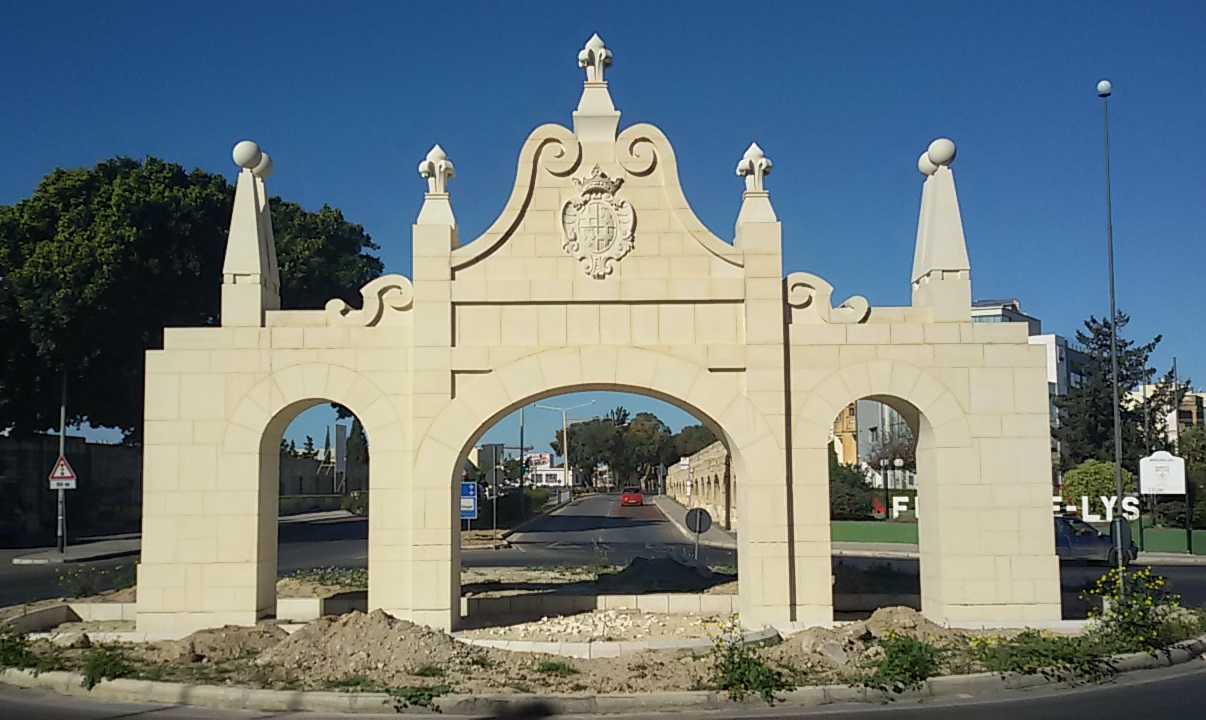 Santa Venera-facing side of the Wignacourt Arch (aka. Fleur-de-Lys Gate)